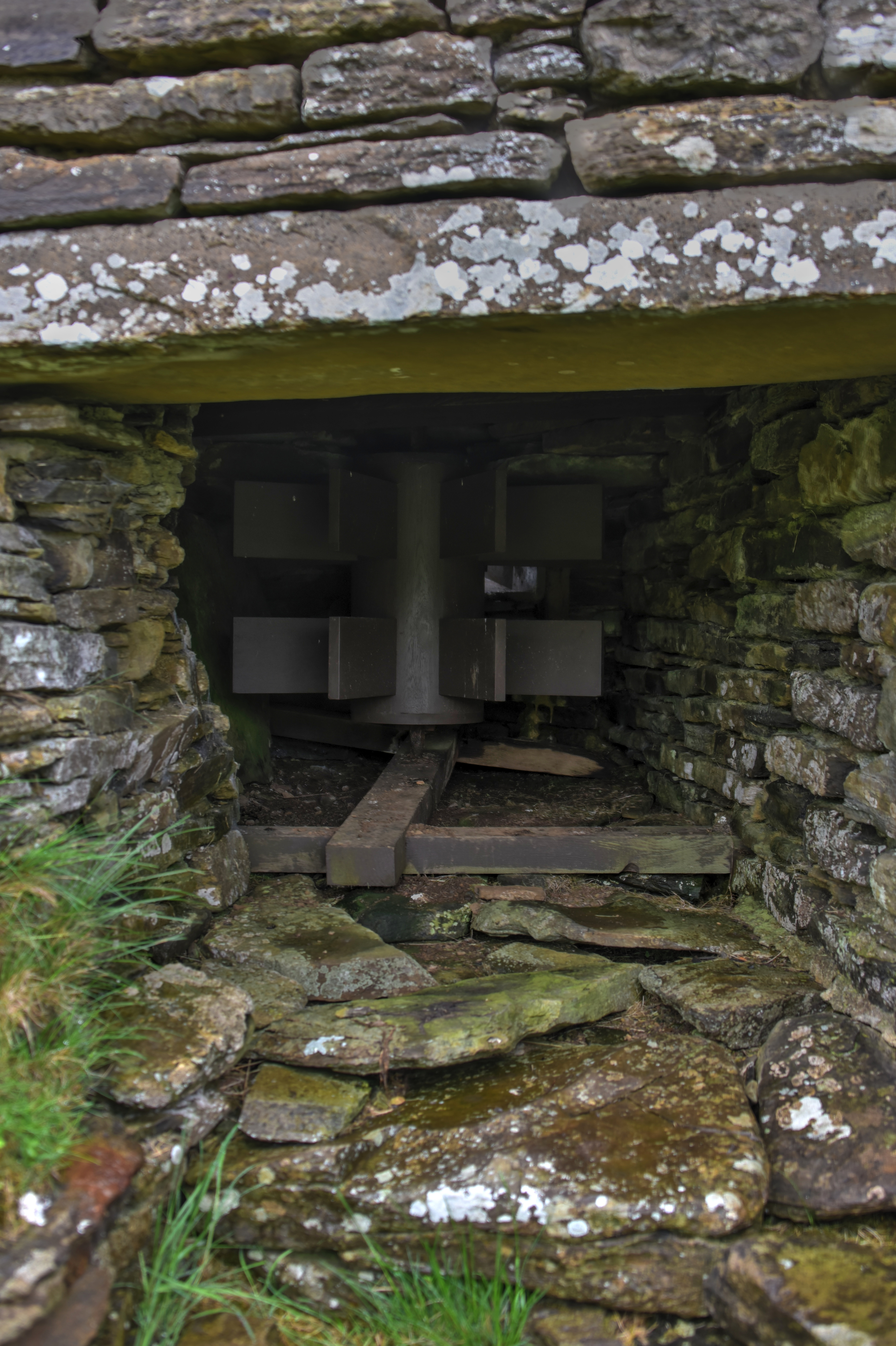 This old water mill in Orkney is unusual in that it has a horizontal water wheel.